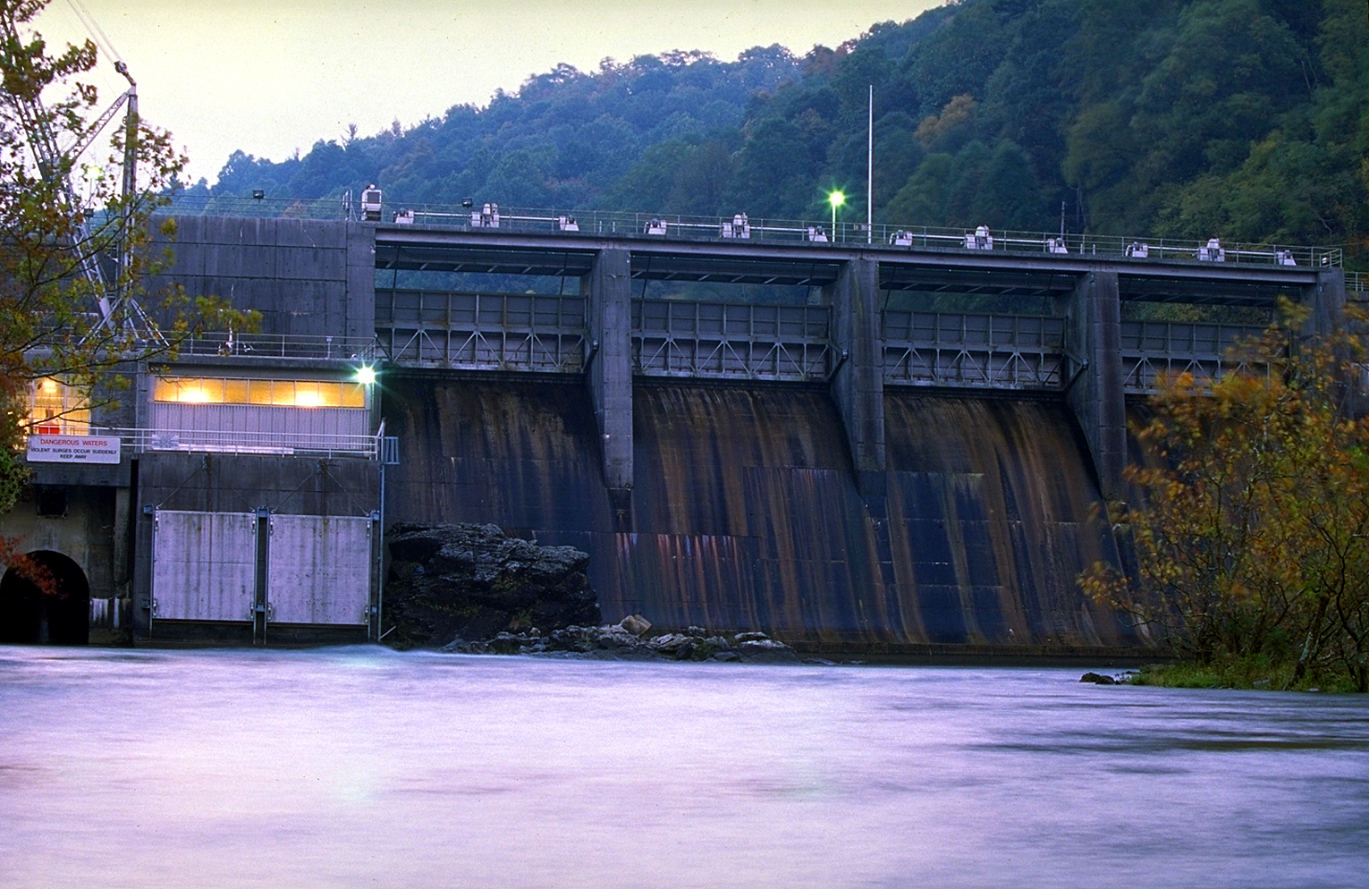 The Wilbur Dam is a hydroelectric dam on the Watauga River in Carter County, in the U.S. state of Tennessee. It is owned and operated by the Tennessee Valley Authority. The generators discharge water through the tunnels and gates shown on the left side of the image. The whitewater rafting "put-in" for the Watauga River is located out-of-frame and the immediate right side and out-of-frame of this image. The Bee Cliff Rapids are located approximately twenty minutes downstream from this location shown in the image.